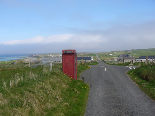 Settlement of Whome on Isle of Flotta, Orkney.